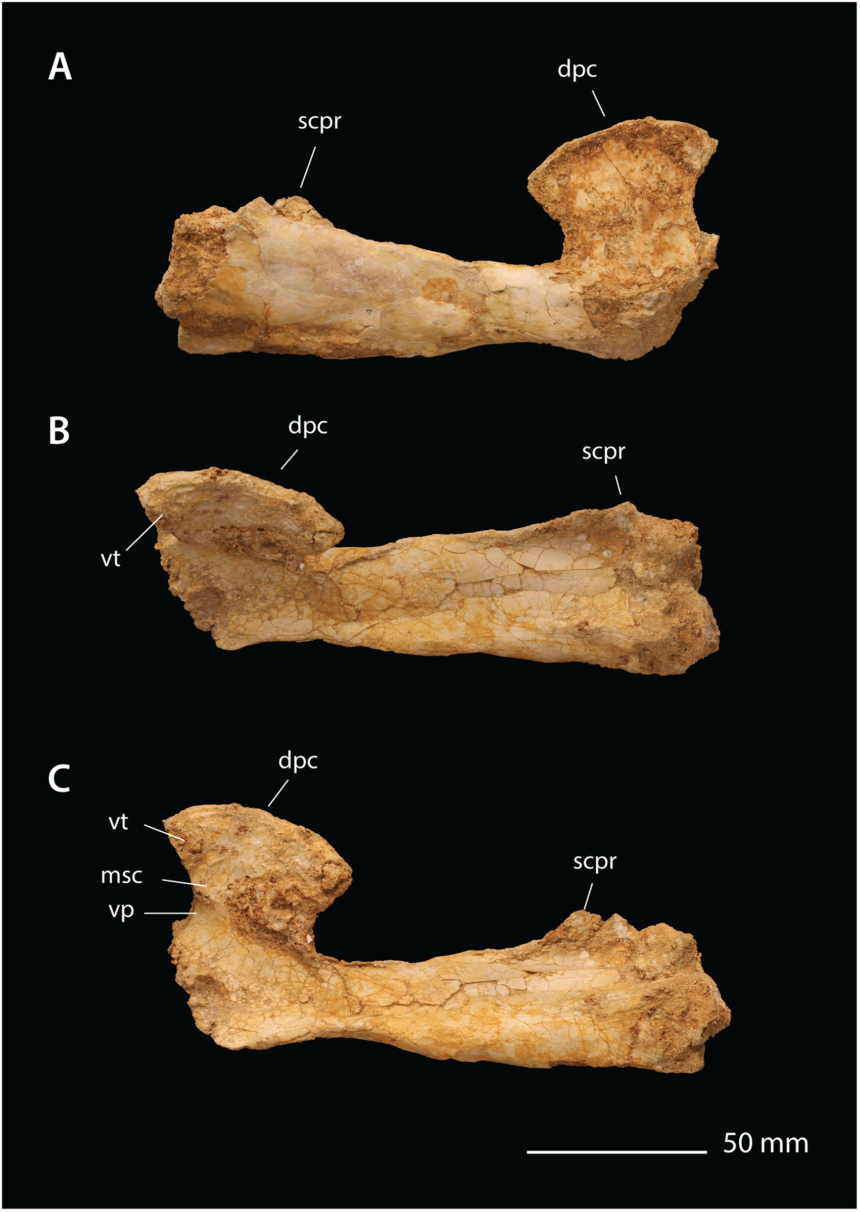 FSAC-OB 7, holotype right humerus, Simurghia robustus. In (A), dorsal view, (B) ventral view, and (C) posterior view. Abbreviations: dpc, deltopectoral crest; msc, muscle scar; scpr, supracondylar process of the ectepicondyle; vp, ventral pillar; vt, ventral tubercle of the deltopectoral crest.